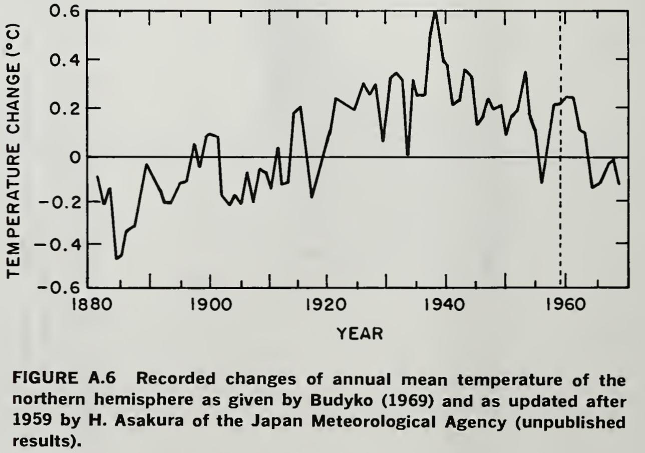 Figure A.6 from the 1975 NAS report "understanding climatic change": A program for action. Northern hemisphere surface temperature from 1880 to 1968. Data from Budyko (1968) updated by Asakura after 1959 (indicated by dashed line on graph).